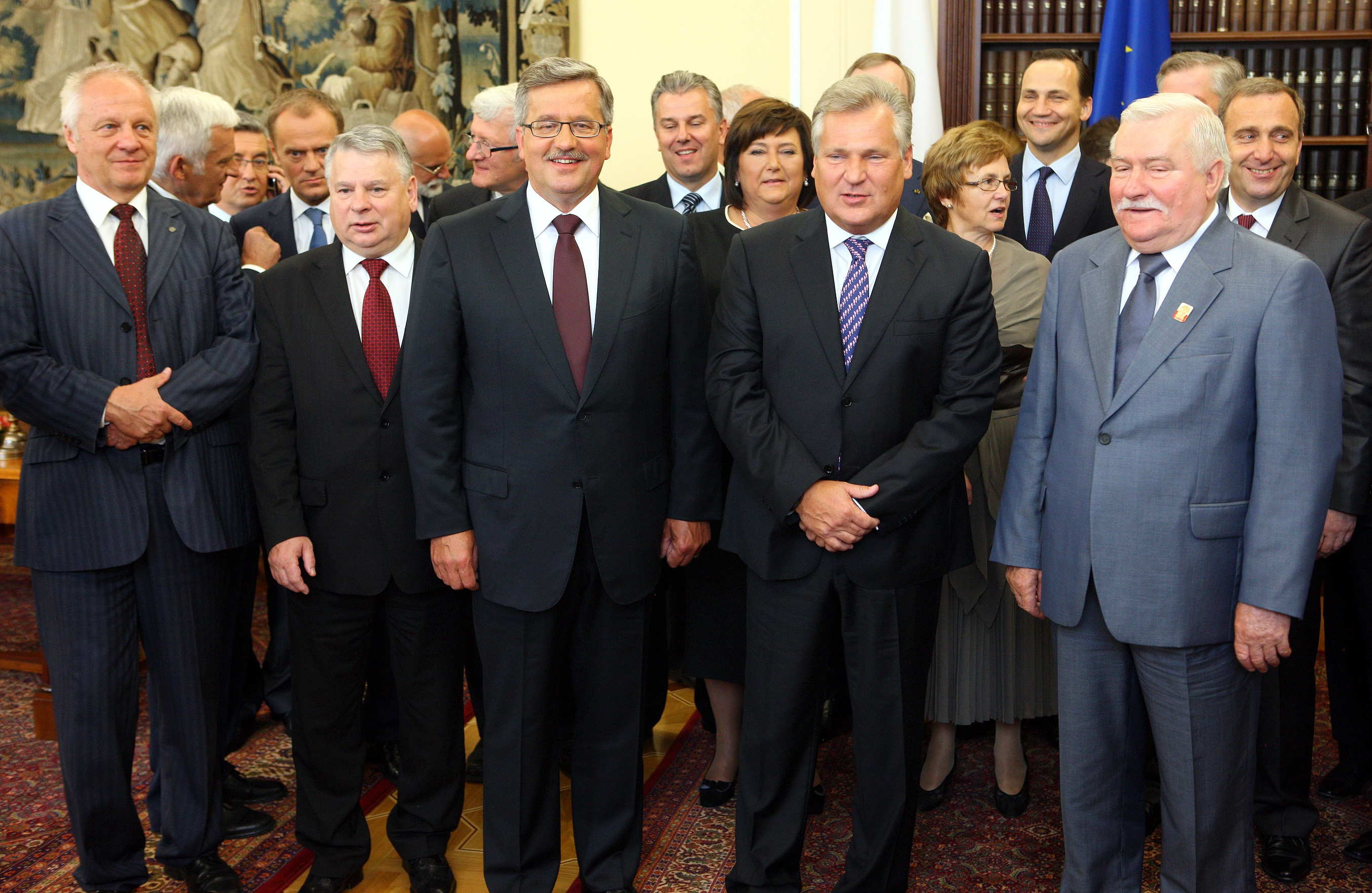 Bronisław Komorowski on the day of being sworn in as president before National Assembly